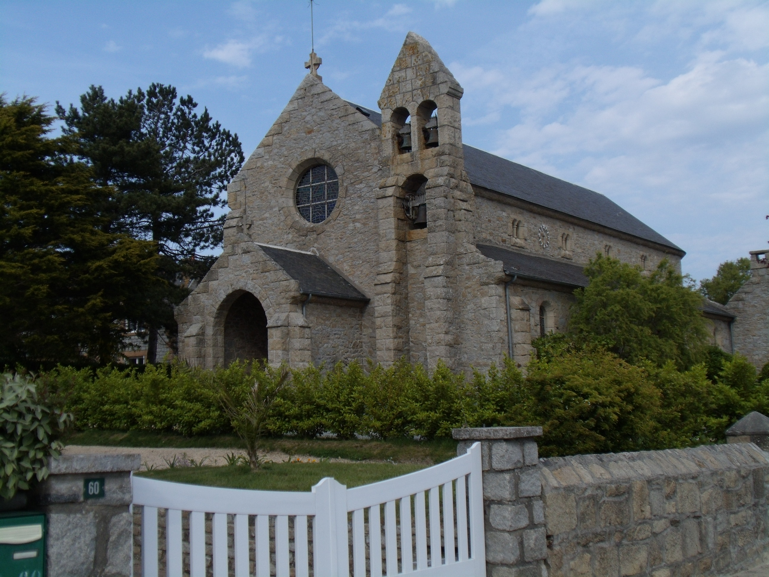 Île-Grande church